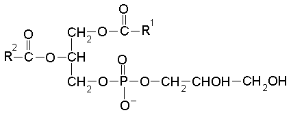 Phosphatidylglycerol